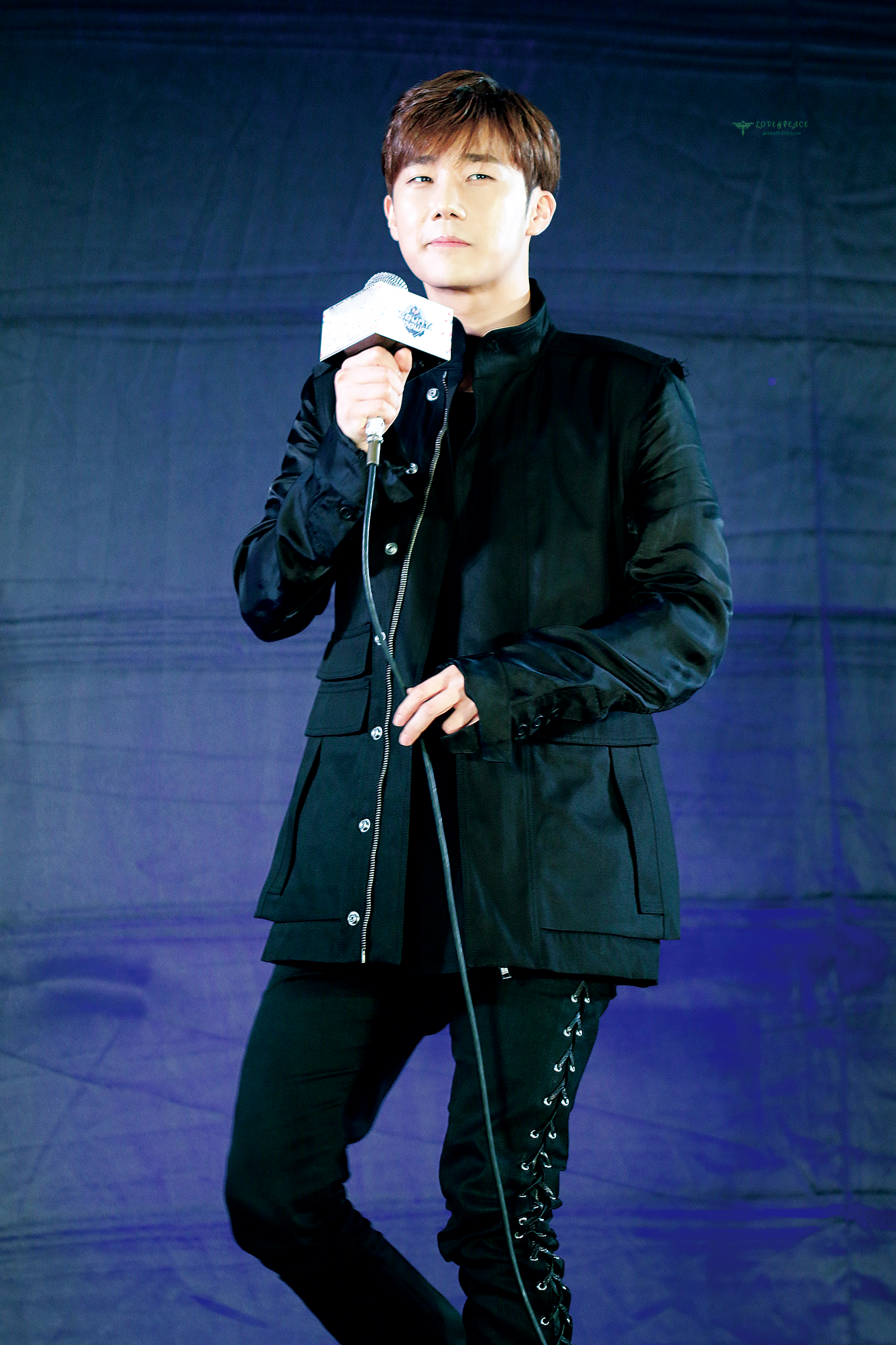 Kim Sung-kyu at KCON 2016 Japan × M Countdown on April 9, 2016.